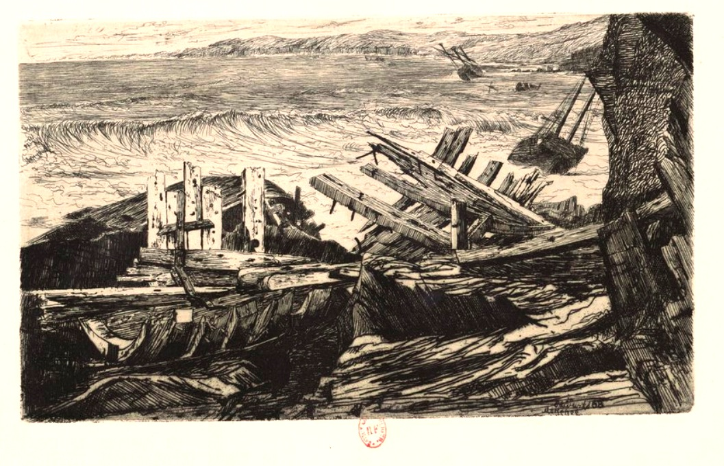 La Sulina, eau-forte by Edwin Edwards for a poem written by Édouard Grenier, in Sonnets et eaux-fortes.